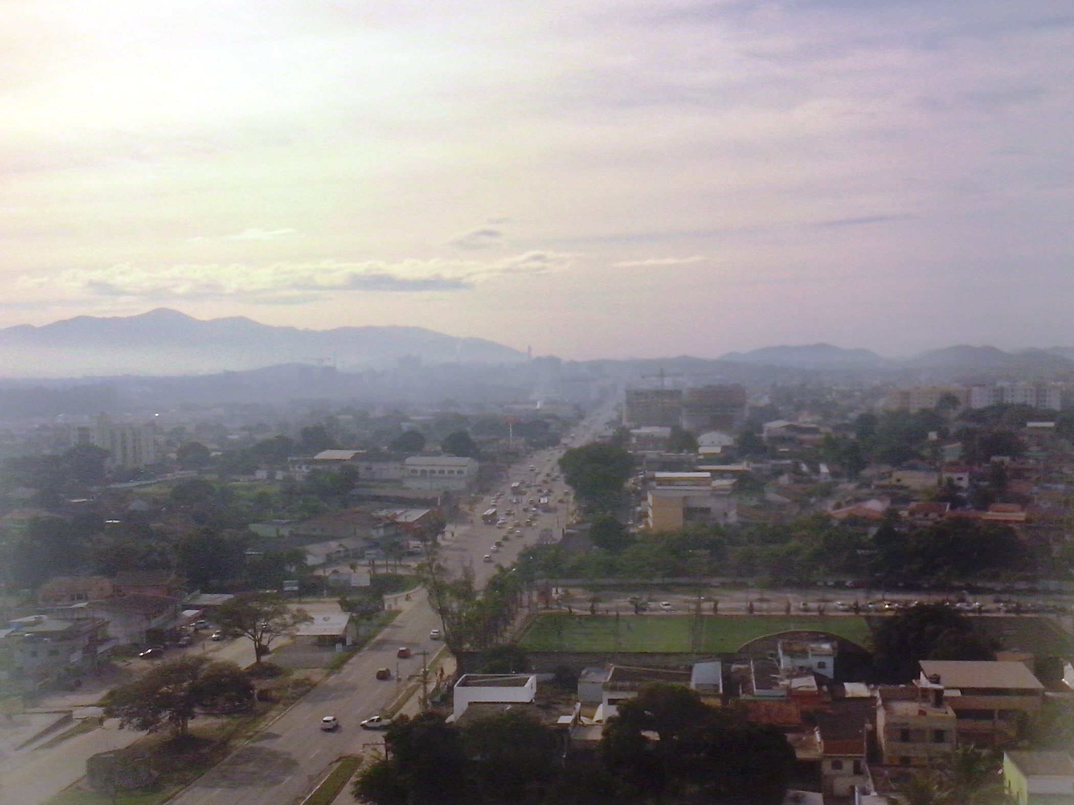 Partial view of Itaboraí, Rio de Janeiro, Brazil, seen from of the Ibis Hotel.